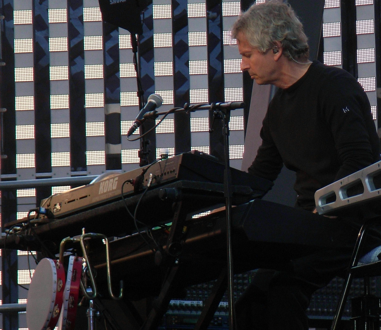 Genesis at Old Trafford 2007